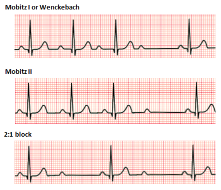 Adapted by the author from an original image by user Googletrans